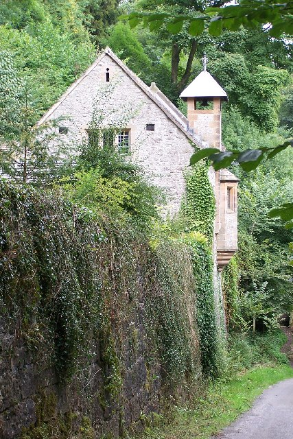 Chapel of St John the Baptist, St John's Road, Matlock, Derbyshire. It was never consecrated and is now maintained by the Friends of Friendless Churches.